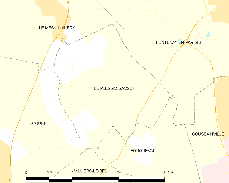 Map of French municipality Le Plessis-Gassot